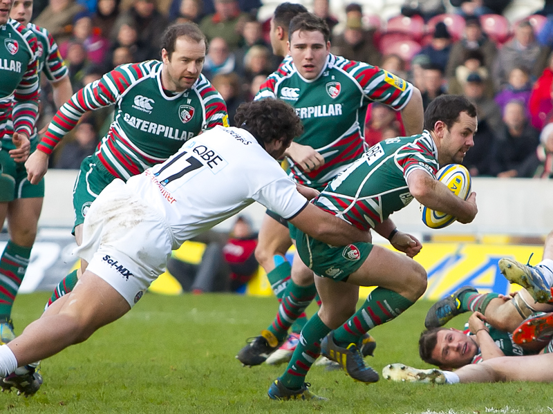 Leicester Tigers' scrum-half Micky Young is grabbed by Bath's Charlie Beech. Leicester Tigers vs Bath, Aviva Premiership, Welford Road, Saturday 1st December 2012